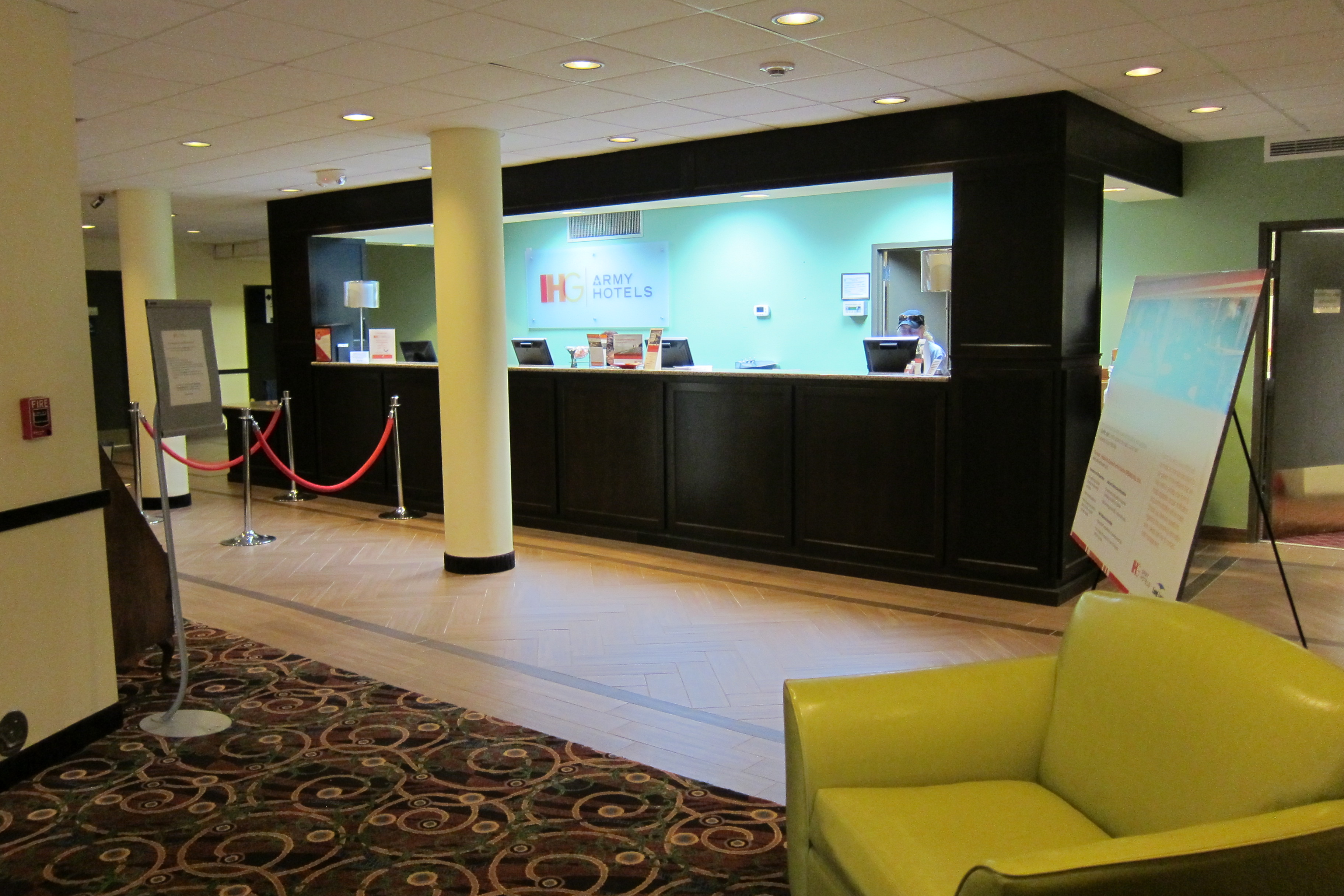 Lobby and check-in desk at IHG Army Hotels on Fort Gordon